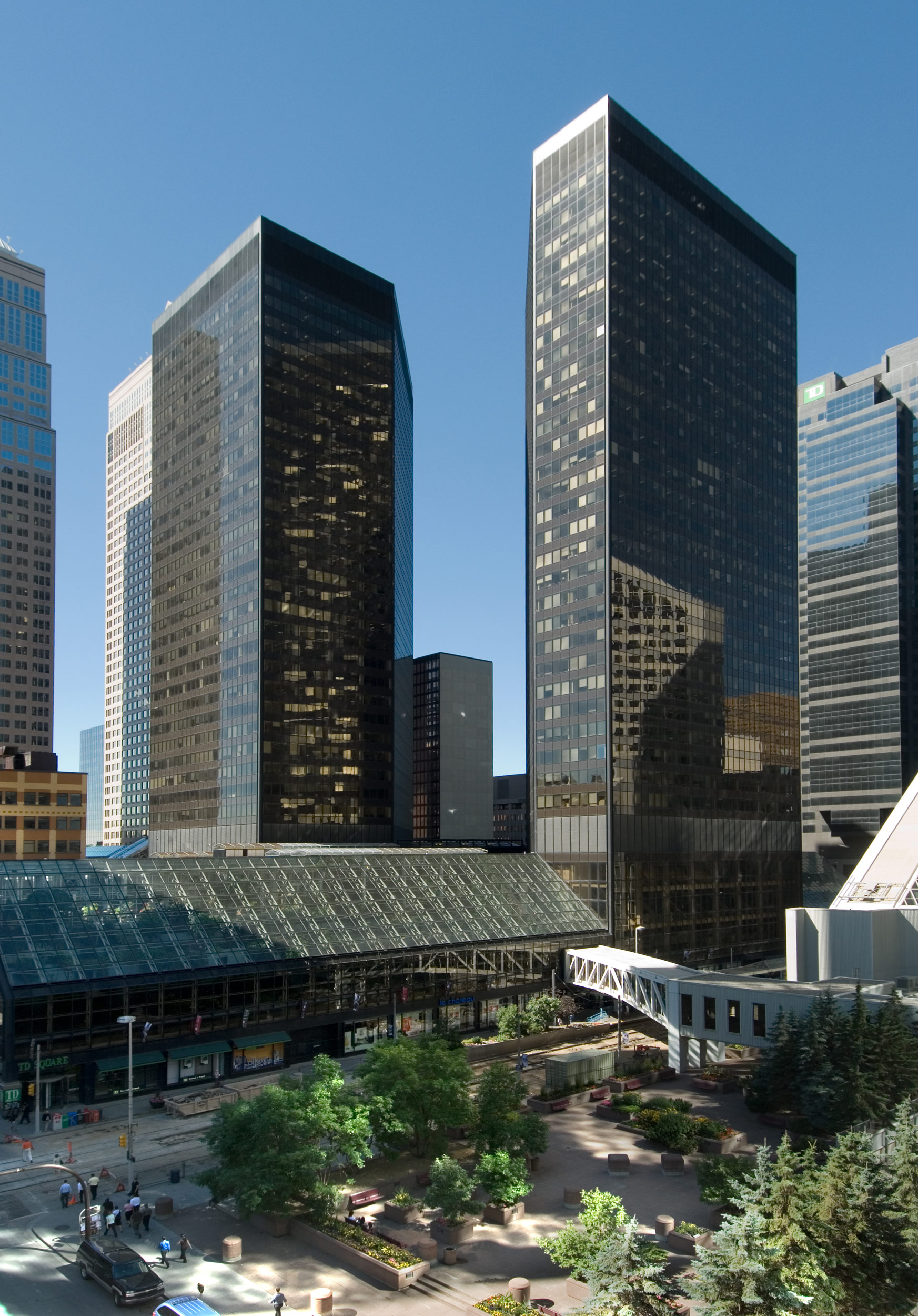 The Home Oil Tower and Dome Tower complex in downtown Calgary, Alberta. Photo by Chuck Szmurlo taken July 23, 2007 with a Nikon D200 and a Nikon 12-24 f4lens.